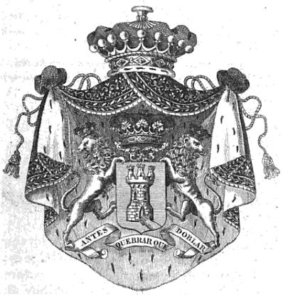 Family Guigues de Moreton de Chabrillan, coat of arms. Armoiries de la famille Guigues de Moreton de Chabrillan.